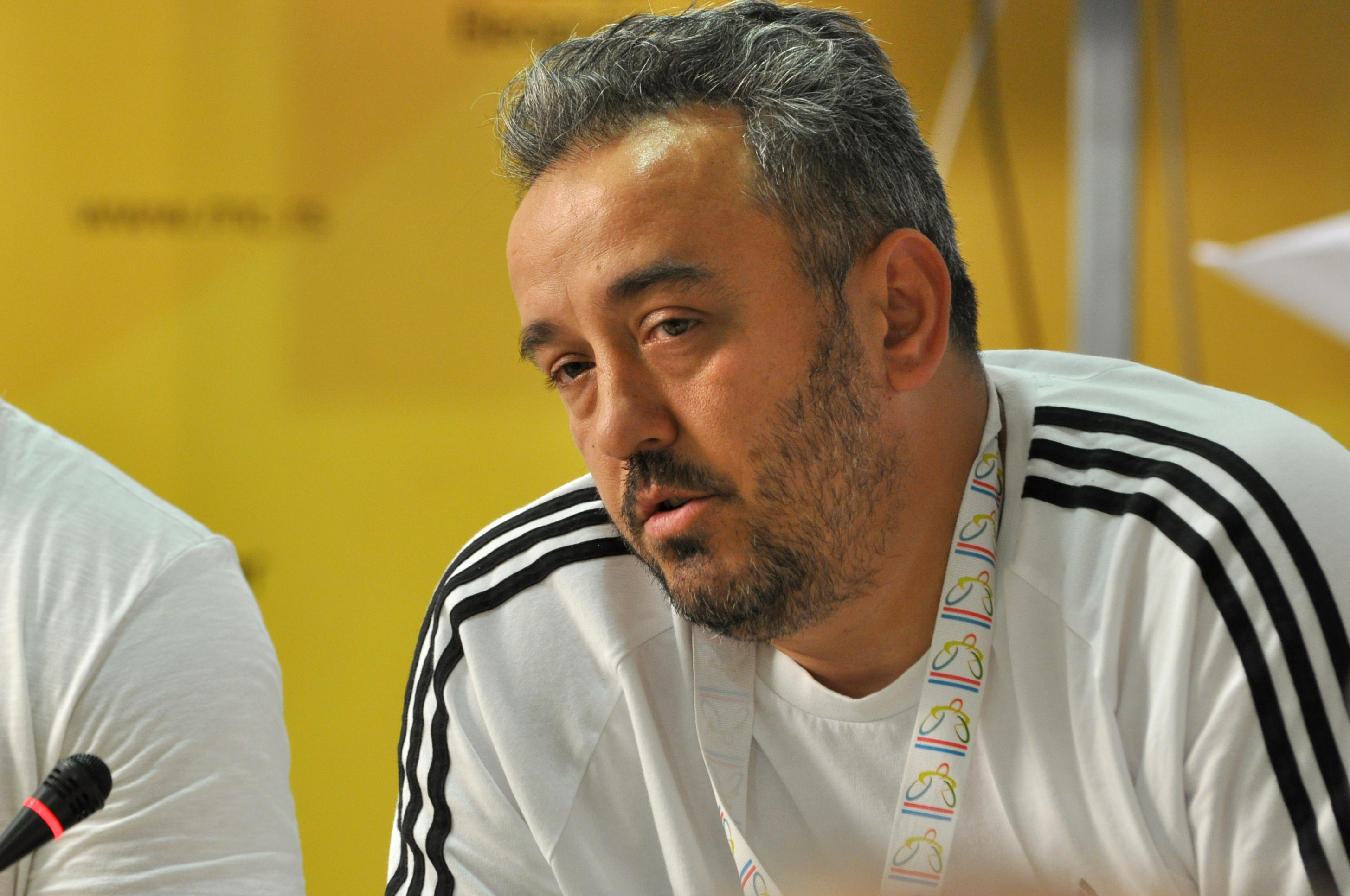 Željko Dimitrijević